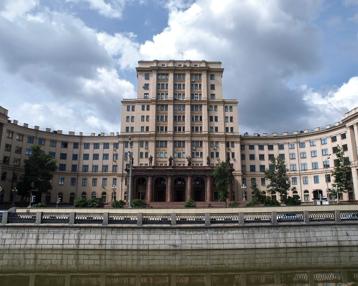 Lefortovskaya Embankment, Moscow. Main building of the Bauman Moscow State Technical University.